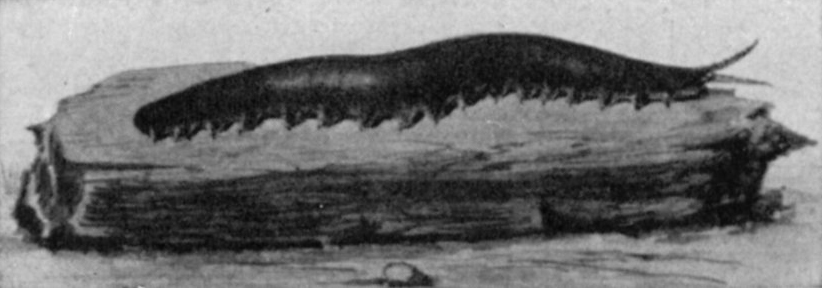 Peripatus. A widely distributed old-fashioned type of animal, somewhat like a permanent caterpillar. It has affinities both with worms and with insects. It has a velvety skin, minute diamond-like eyes, and short stump-like legs. A defenceless, weaponless animal, it comes out at night, and is said to capture small insects by squirting jets of slime from its mouth.